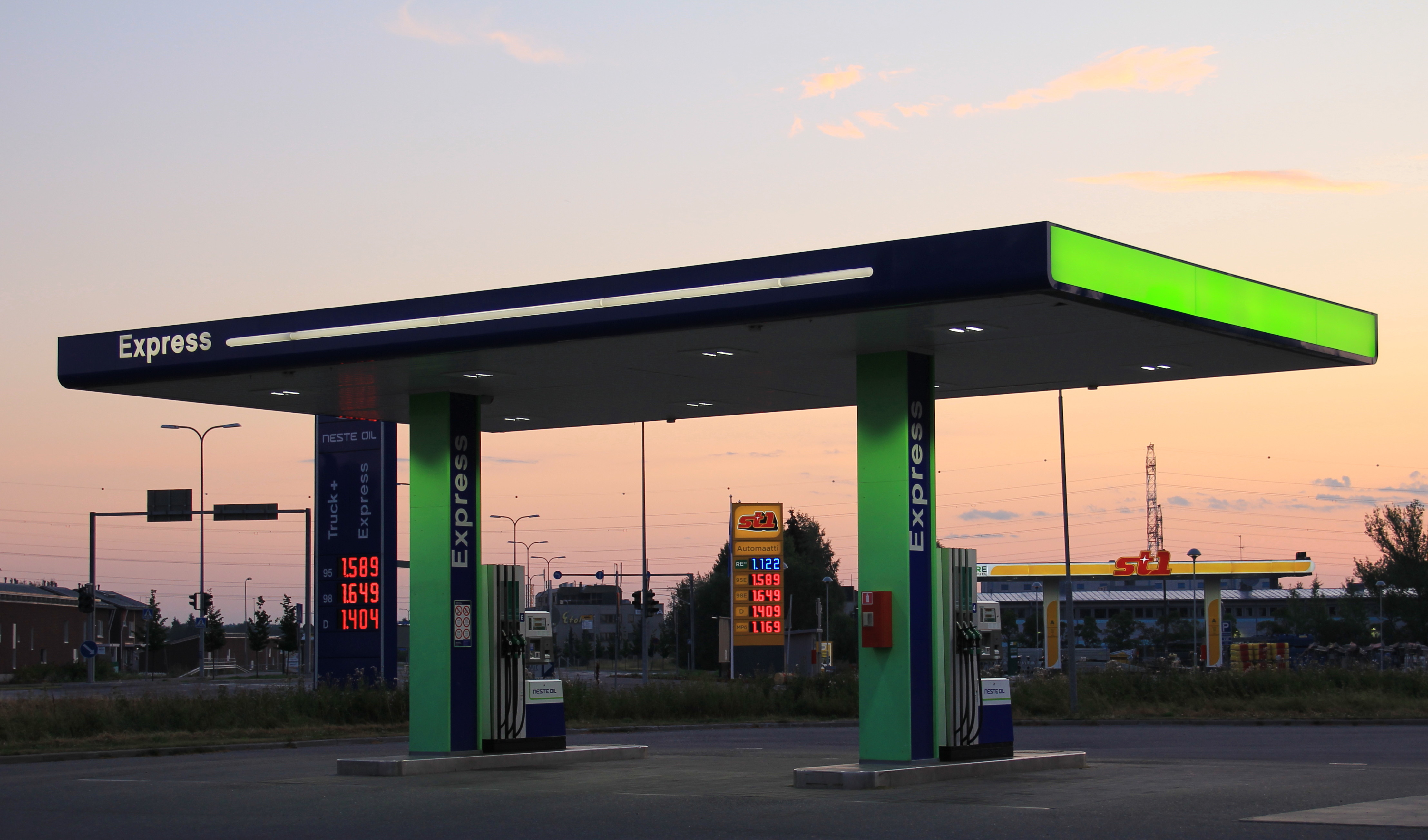 Neste Express petrol station in Suutarila, Helsinki, Finland. (At the time of the photography it was Neste Oil Express.) - Background: St1 Petrol Station.